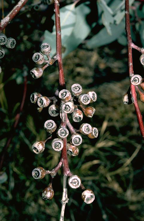 Fruit of Eucalyptus microtheca, in the Olive Pink Botanic Gardens, Northern Territory